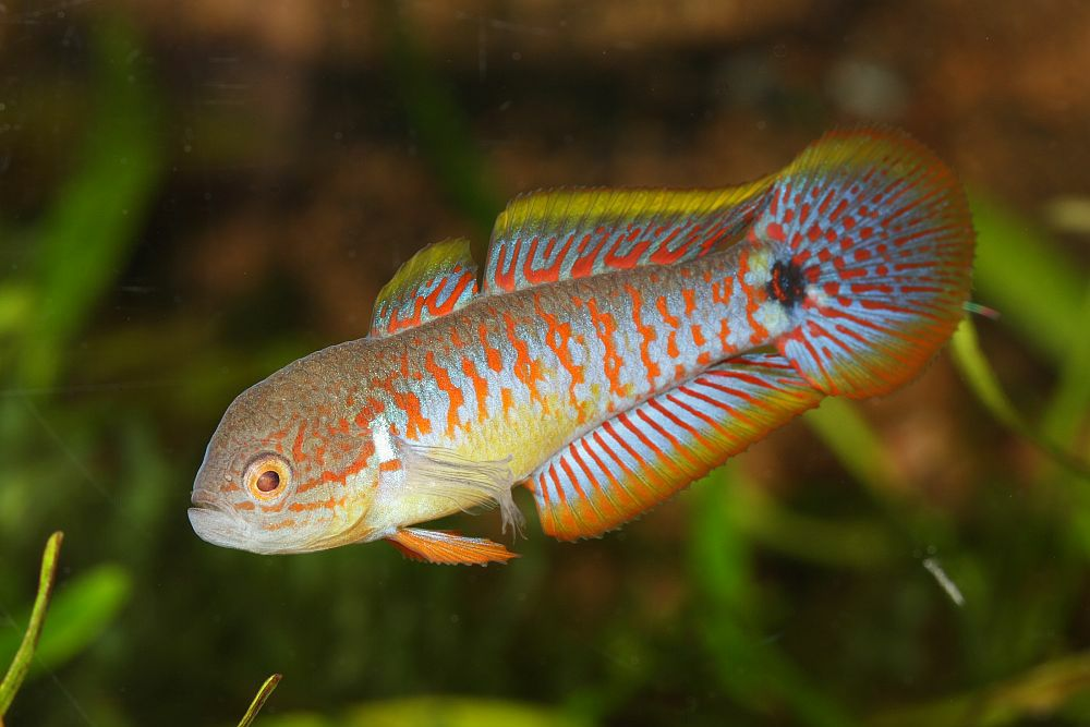 Peacock gudgeon (Tateurndina ocellicauda) - male - in aquarium.